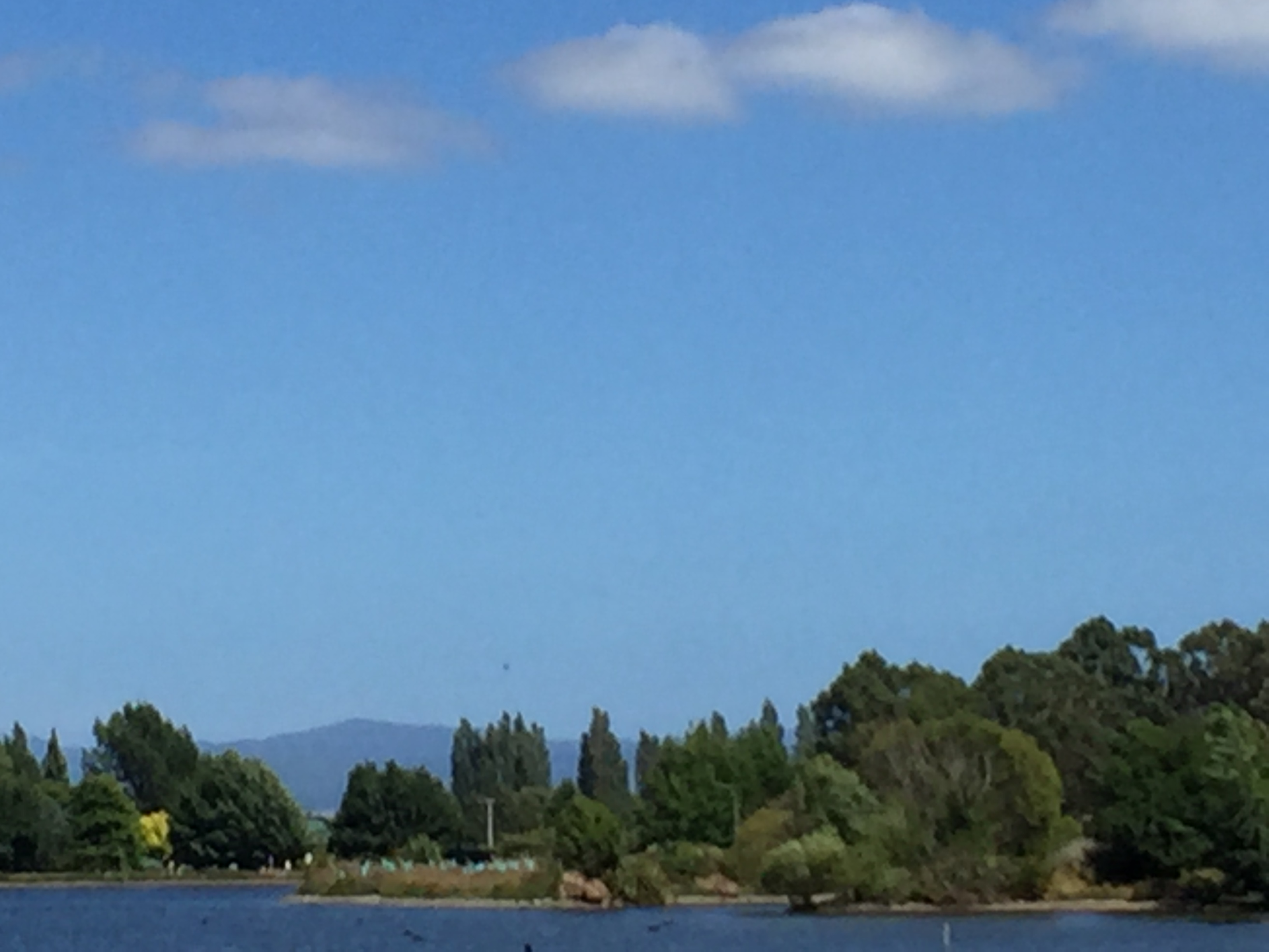 Looking at Tartarus Ranges from Henley Lake.